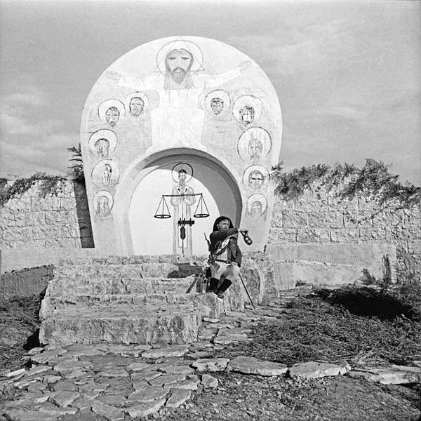 The Moldavian actor Mihai Volontir in a role Ivan Turbinca in a film "Is necessary the gatekeeper" (Moldova-film, 1967). Location next to Gagra. A camera of Pentacon.